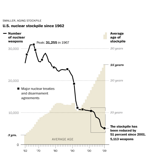 U.S. nuclear stokpile since 1962 in 2009. Average age of stockpile.